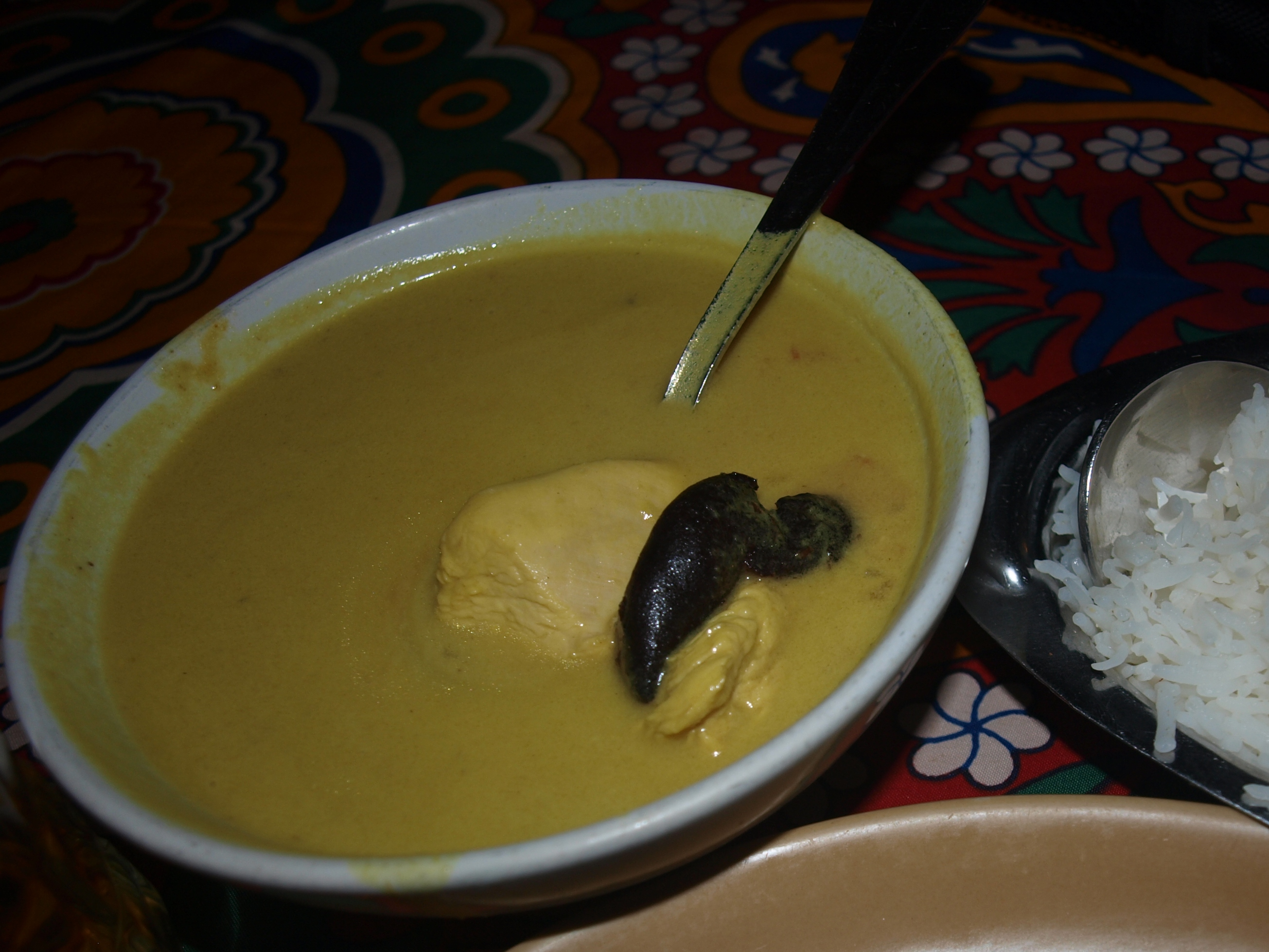 Chichen caldinho, a typical goan dish, photographed in Calangute.